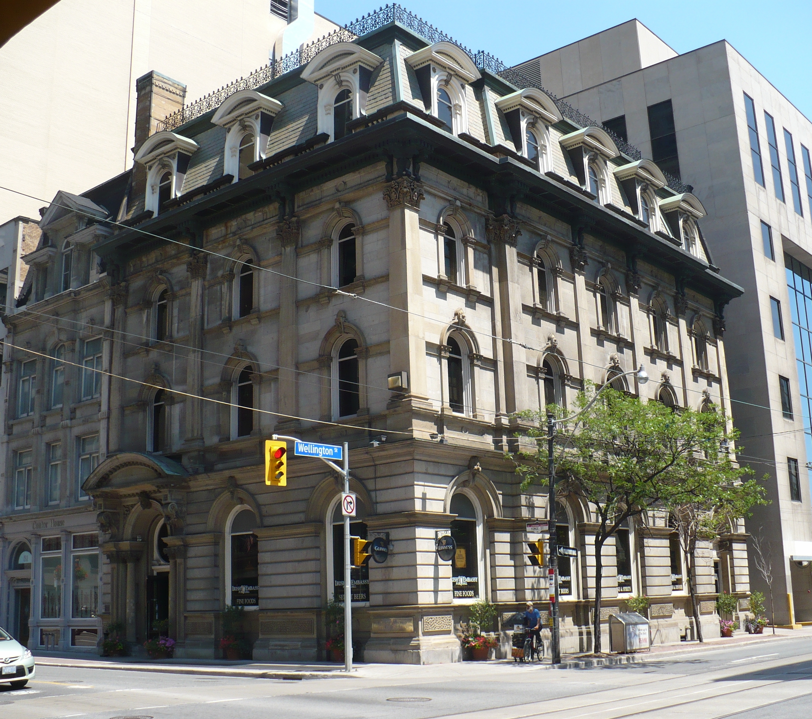 Bank of British North America building, subsequently a branch of the Canadian Imperial Bank of Commerce; constructed 1872-73 (architect: Henry Langley); alterations 1903 (architects: Burke & Horwood). Currently serves as an Irish-style pub. Toronto, Canada.